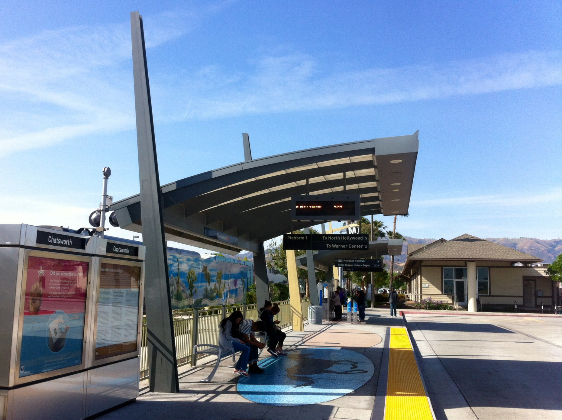 The platform view of Chatsworth Station.